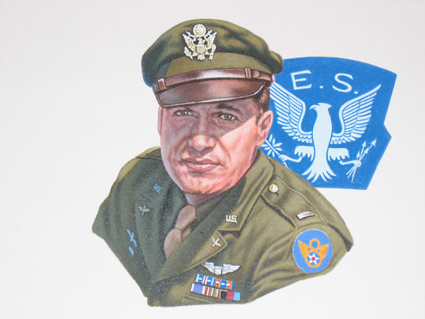 Air University's 2006 Gathering of Eagles lithograph of honoree pilot Steve Pisanos.